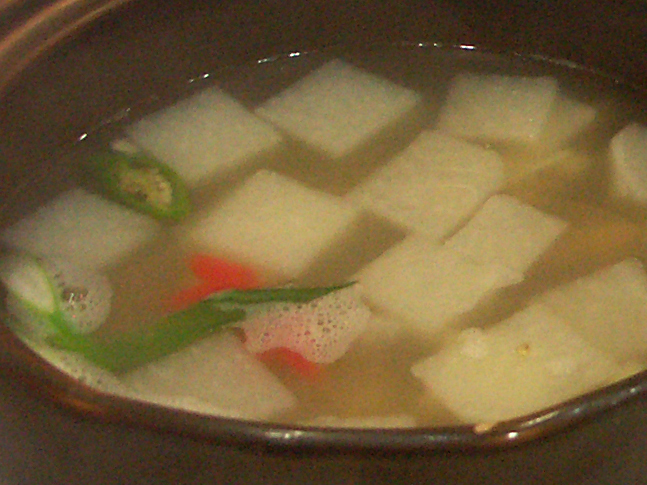 Dongchimi, a variety of kimchi made during winter just like its name in Korean cuisine. The picture is cropped for the relevant dish.